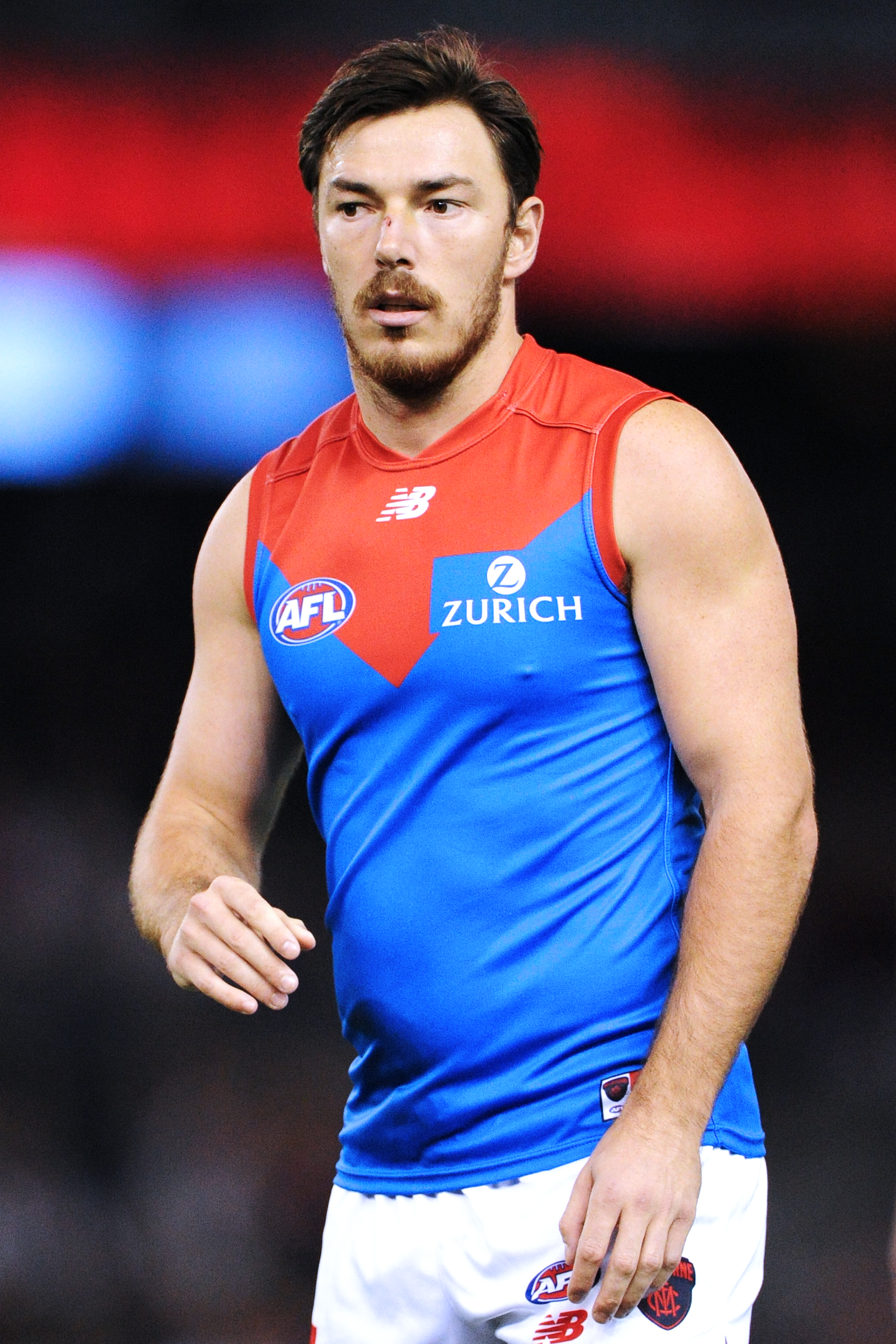 Michael Hibberd of Melbourne during the 2018 AFL round 6 match between Essendon and Melbourne at Etihad Stadium on Sunday, 29 April 2018 in Melbourne, Victoria.